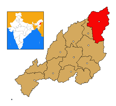 Location map of Mon district, Nagaland, India অসমীয়া: ভাৰতৰ ৰাজ্য নাগালেণ্ডৰ মানচিত্ৰত মন জিলাৰ অৱস্থান